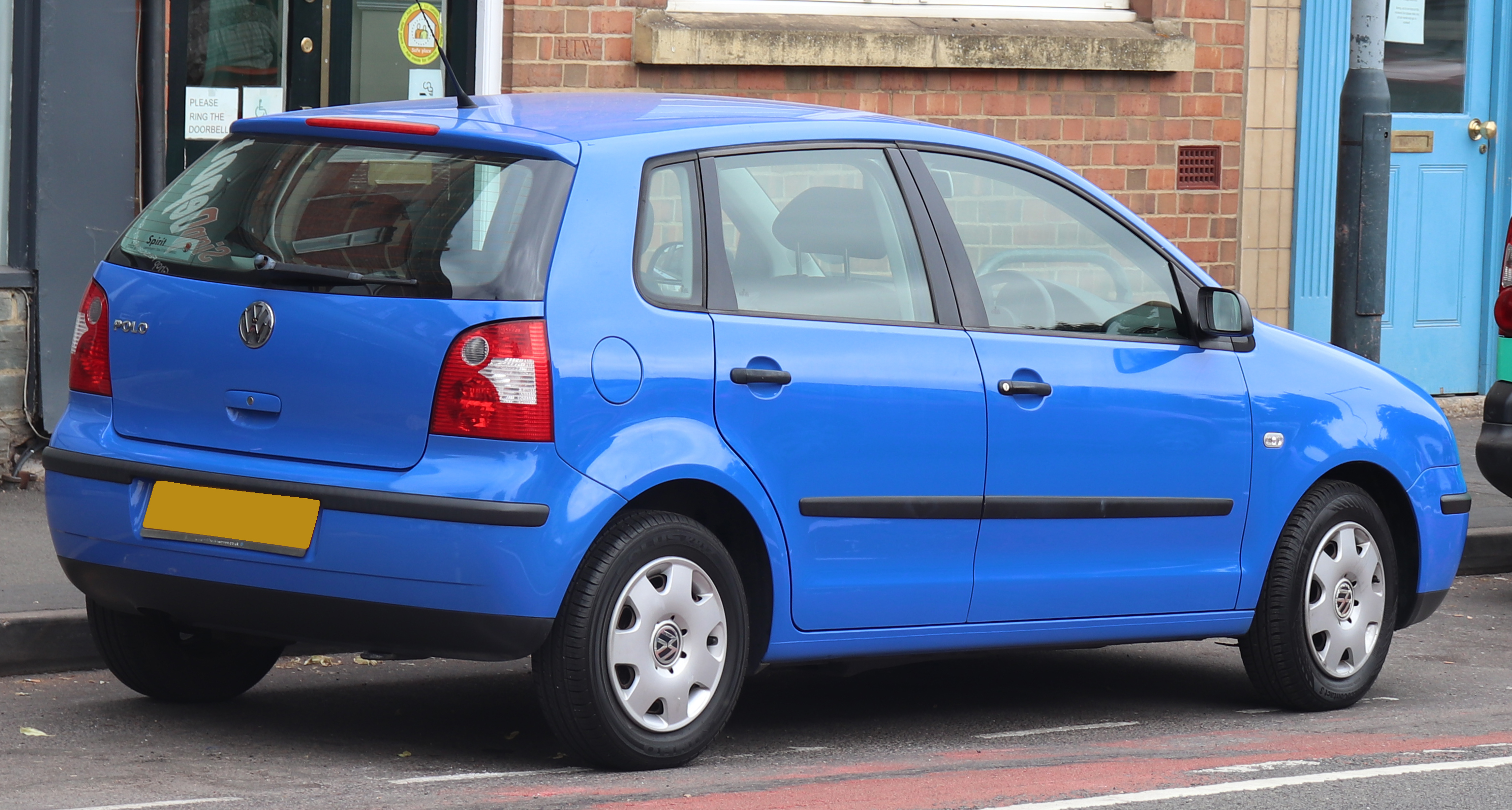 2005 Volkswagen Polo E 1.2 Rear Taken in Warwick